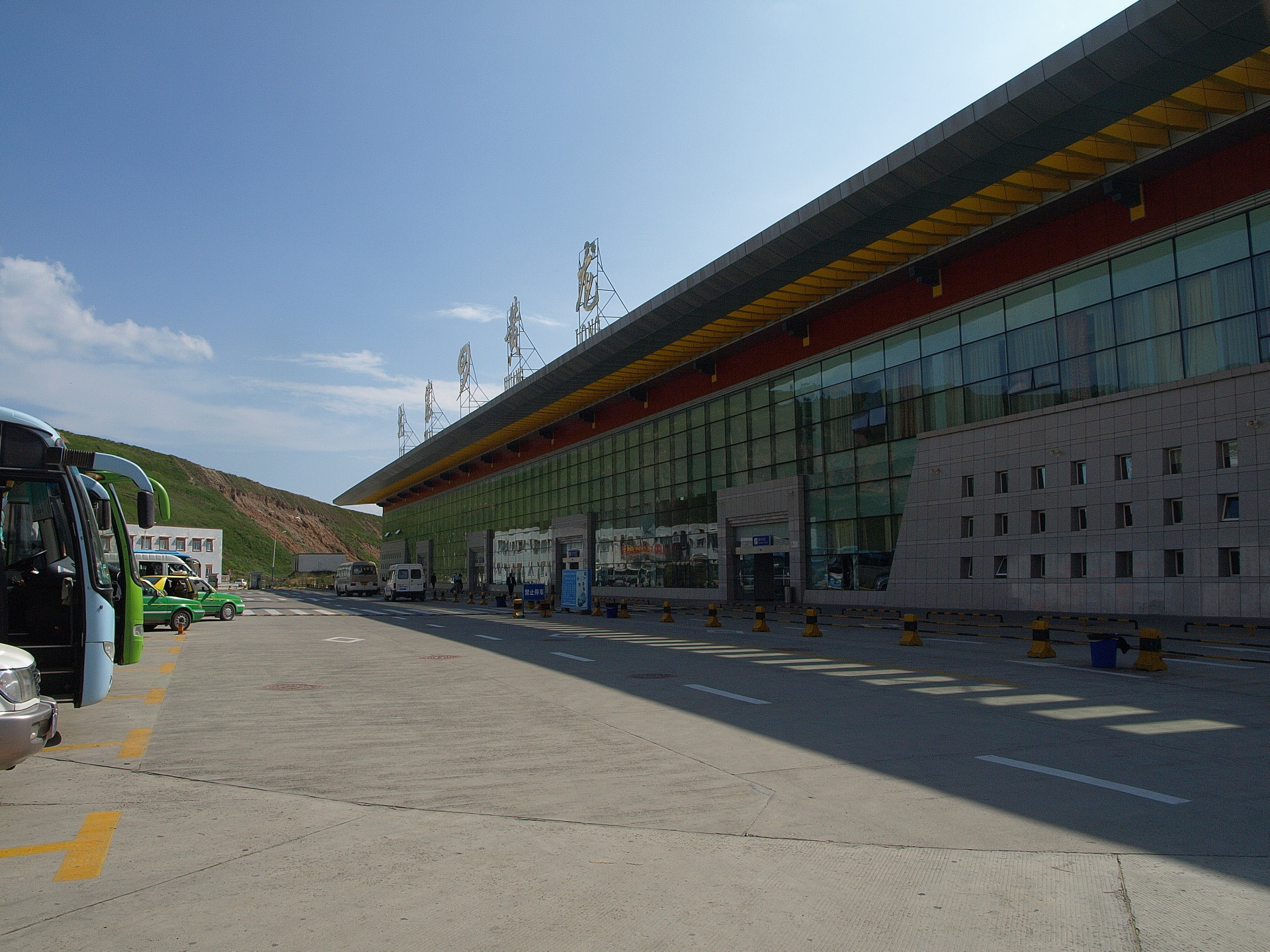 Sichuan Jiuzhaihuanglong Airport(Terminal Building)